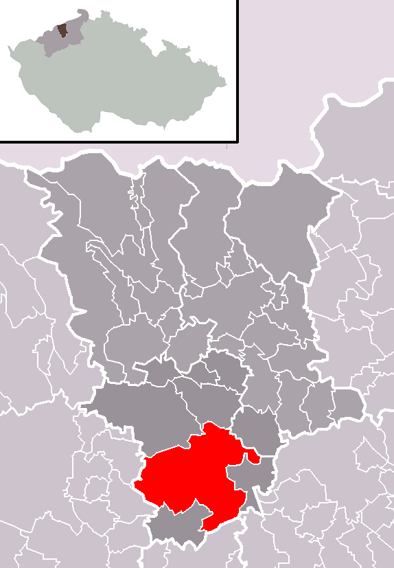 Location of Hrobčice town within Teplice District and administrative area of Bílina as a Municipality with Extended Competence.